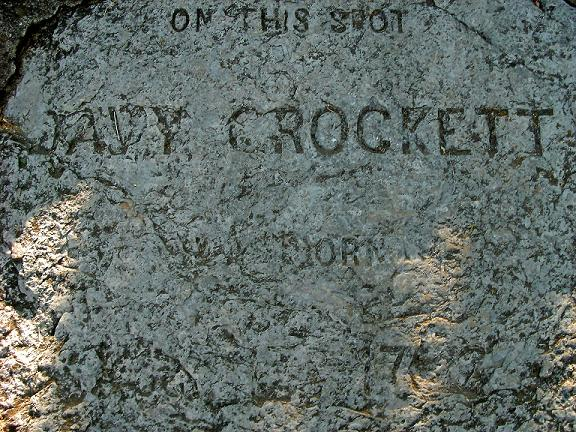 Weathered Stone depicting the birth spot of David Crockett